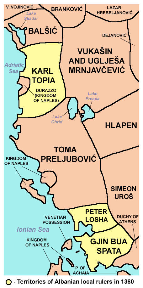 Territories of Albanian local rulers Karl Topia, Peter Losha and Gjin Bua Spata in 1360.